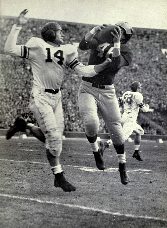 Photograph of Don Peterson (Michigan No. 46) This work is in the public domain because it was published in the United States between 1923 and 1963 and although there may or may not have been a copyright notice, the copyright was not renewed. Unless its author has been dead for the required period, it is copyrighted in the countries or areas that do not apply the rule of the shorter term for US works, such as Canada (50 pma), Mainland China (50 pma, not Hong Kong or Macao), Germany (70 pma), Mexico (100 pma), Switzerland (70 pma), and other countries with individual treaties. See Commons:Hirtle chart for further explanation. This work is in the public domain in the United States because it was published in the United States between 1923 and 1977 without a copyright notice. See Commons:Hirtle chart for further explanation. Note that it may still be copyrighted in jurisdictions that do not apply the rule of the shorter term for US works (depending on the date of the author's death), such as Canada (50 p.m.a.), Mainland China (50 p.m.a., not Hong Kong or Macao), Germany (70 p.m.a.), Mexico (100 p.m.a.), Switzerland (70 p.m.a.), and other countries with individual treaties.